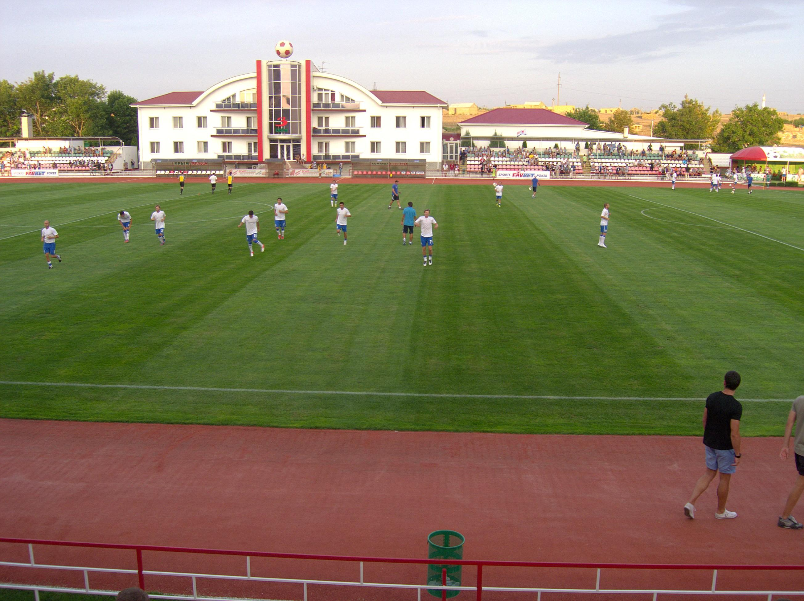 KT Sport Arena in Ahrarne, Crimea, Ukraine